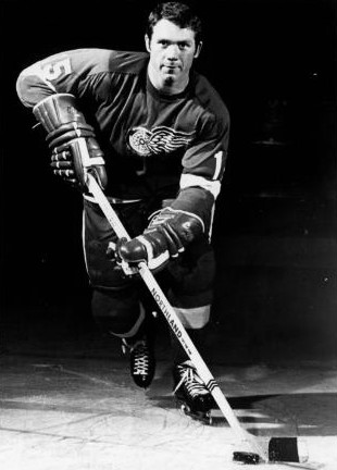 Photo of Hank Monteith as a member of the Detroit Red Wings.